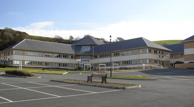 Council offices, Aberaeron, near to Aberaeron, Ceredigion/Sir Ceredigion, Great Britain. New offices for a new council. In 1974 Cardiganshire became a mere district of Dyfed County Council. Now it is one of the new breed of Unitary Authorities, effectively a county again.